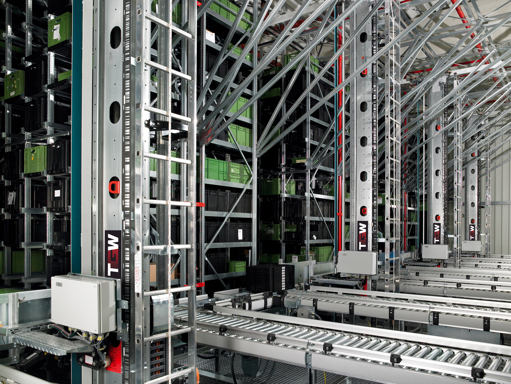 fully automated 4 aisle bin warehouse for electronic components with Mustang AS/R machines from TGW